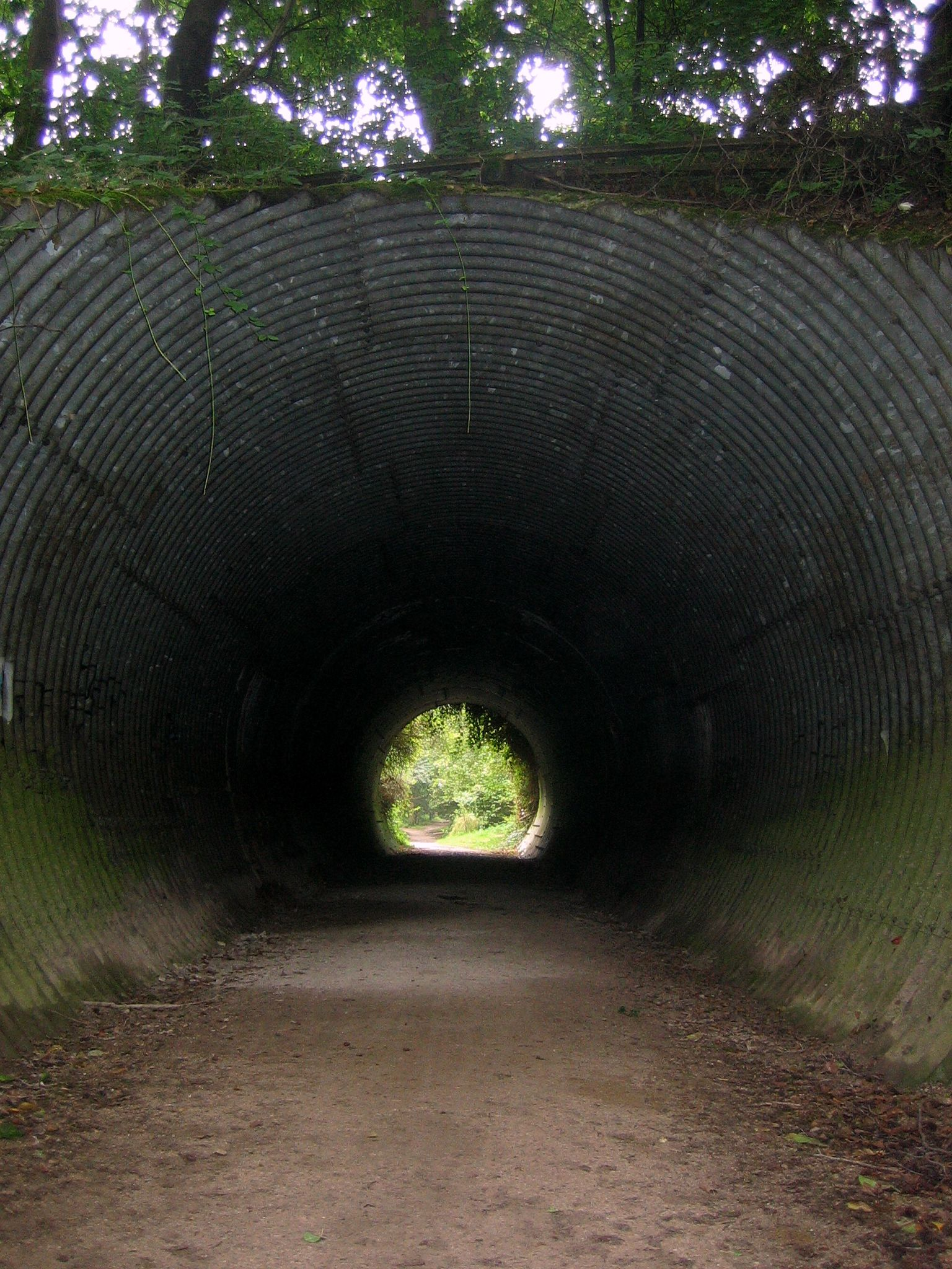 The tunnel on the Middlewood Way under the A6 at High Lane